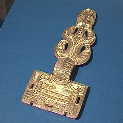 A Bavarian fibula (brooch) from the 6th century, an archeological find from Waging am See in Upper Bavaria. Boarisch: A bajuwarische Bügifibl fum 6. Joahundat, archeologischa Fund aus Waging am See, Owabaian.